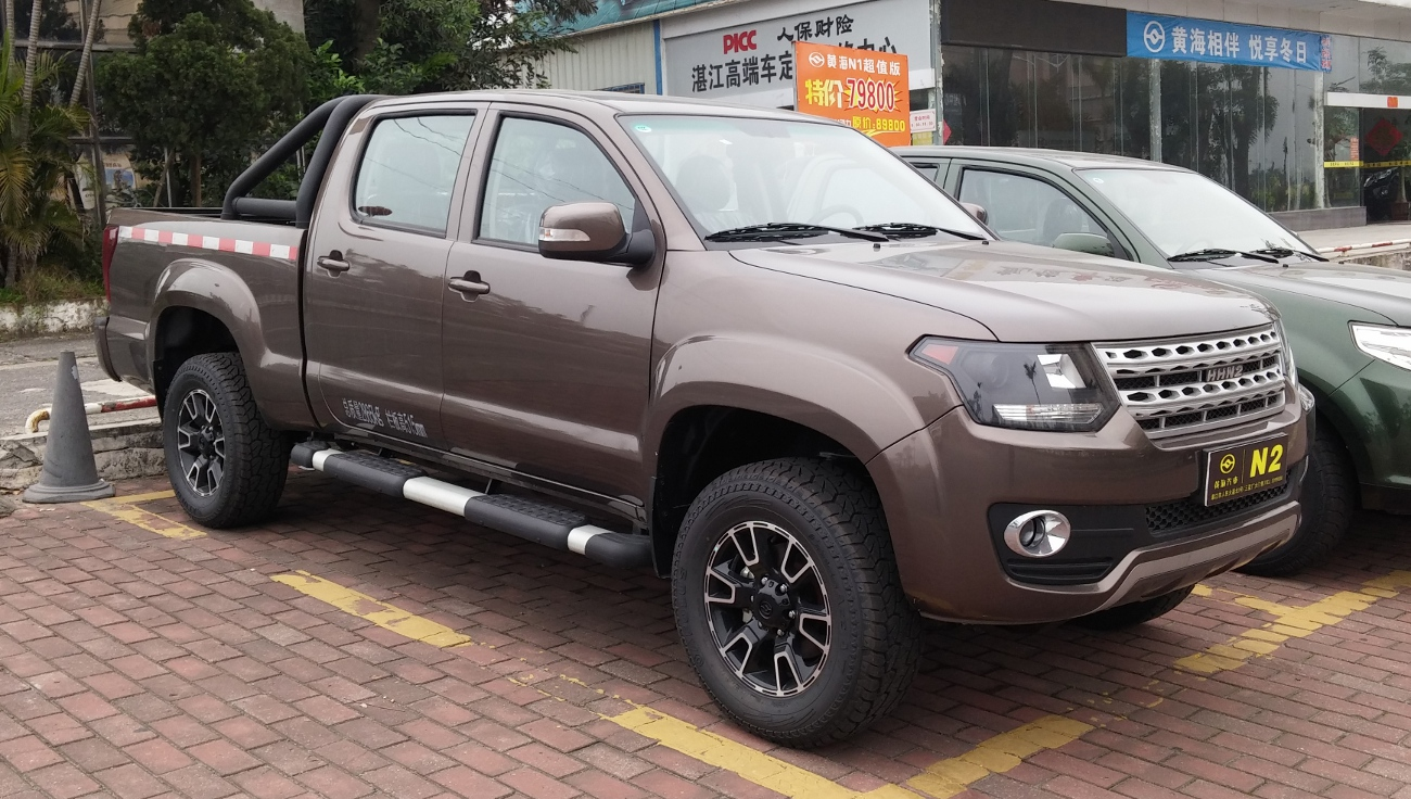 Huanghai N2 photographed in Zhanjiang, Guangdong province, China.